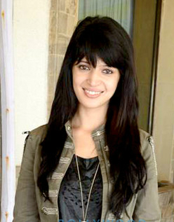 Charlie Chauhan at the launch of 'Ye Hai Aashique'